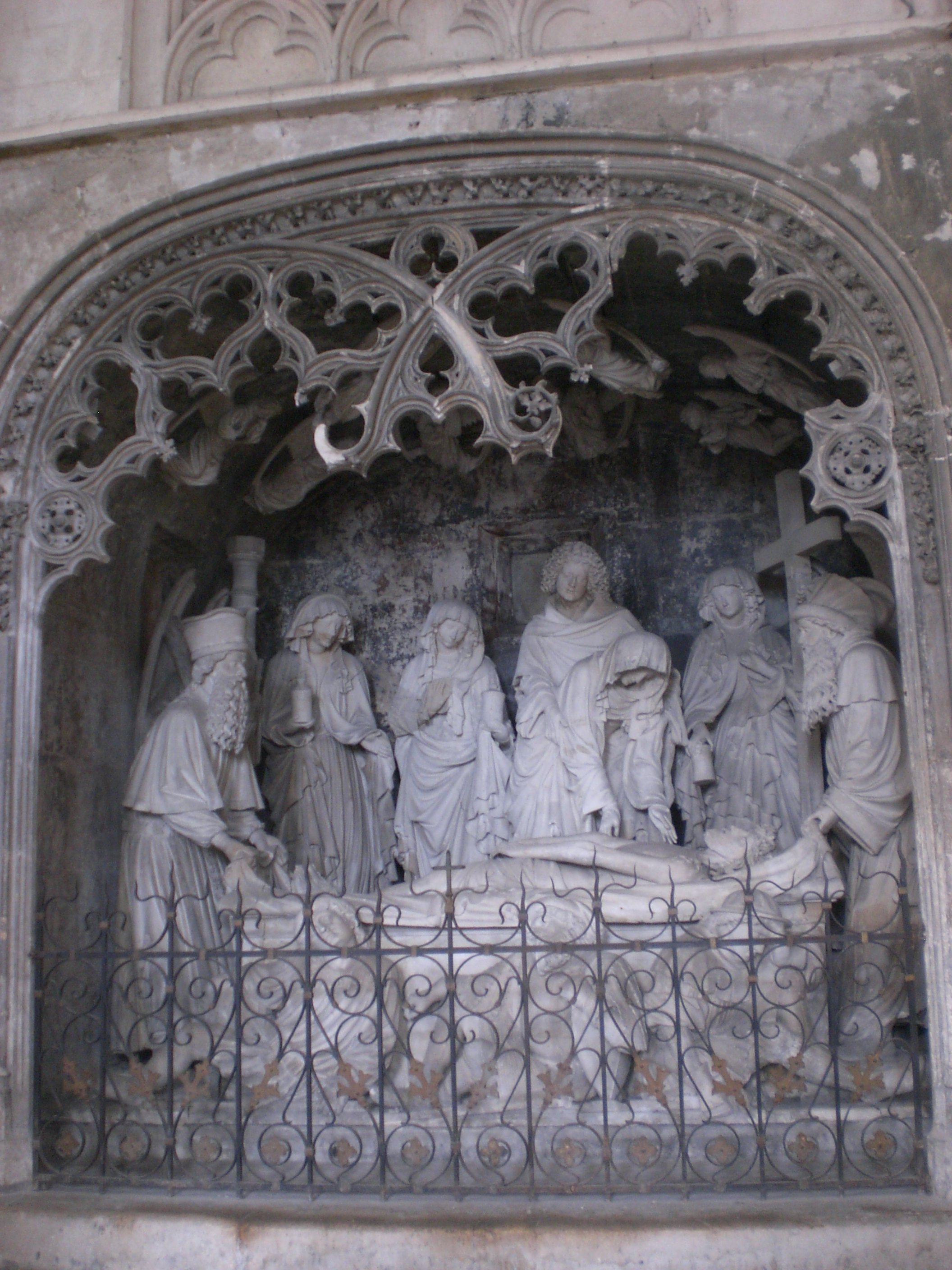 Pont-à-Mousson, St. Martin's Church, Pietà, XV Century